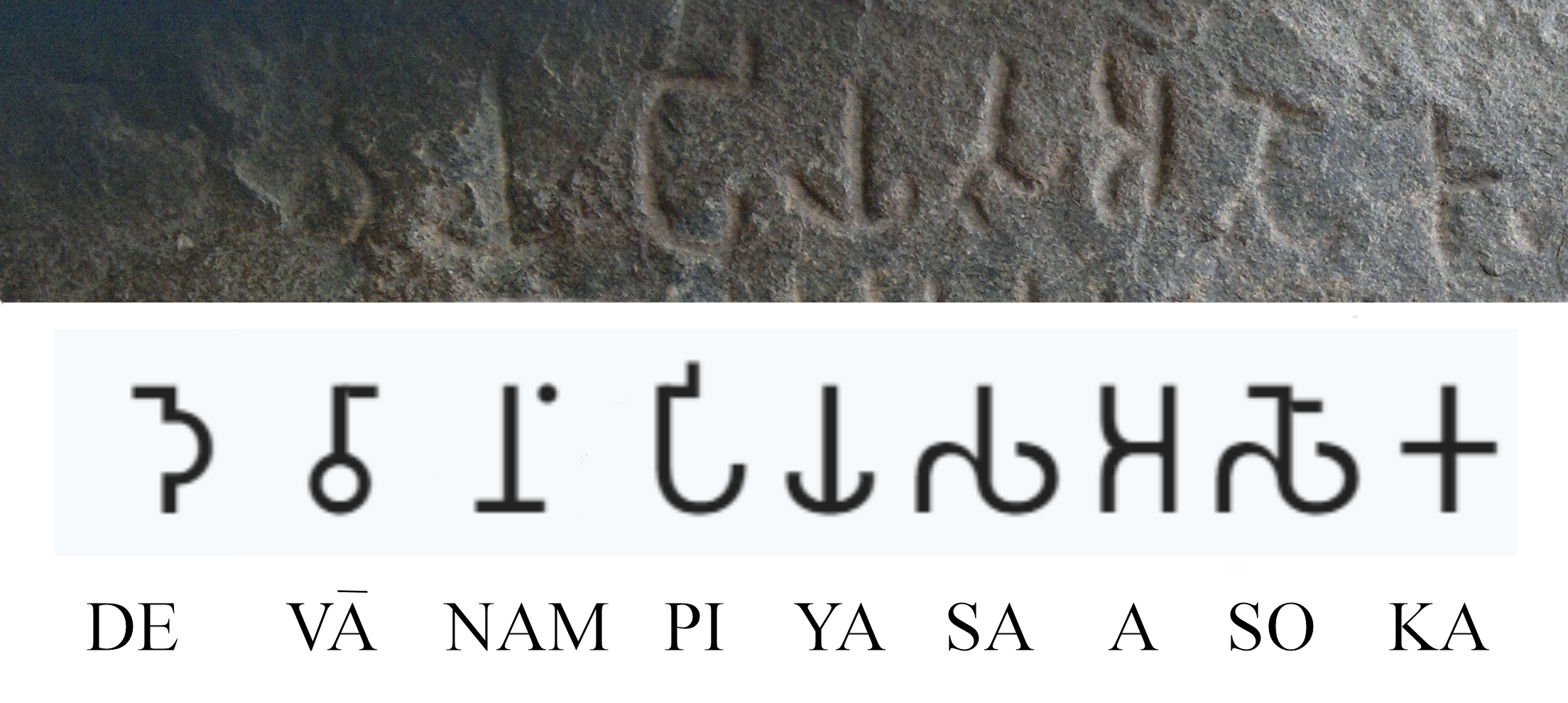 Devanampiyasa Asoka